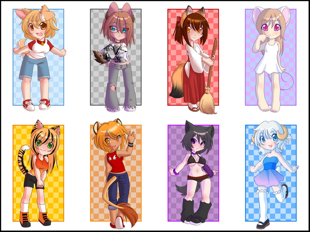 A collection of various kemonomimi (dog, hyena, fox, mouse; tiger, lion, wolf, sheep)